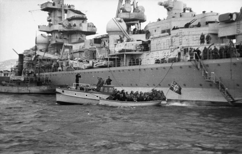 Heavy cruiser Admiral Hipper landing troops in Norway in 1940. Original caption reads "Heavy cruiser Lützow" - but as the heavy cruiser Lützow had been sold to the soviet union and the only remaining ship named "Lützow" was a pocket battleship, the only heavy cruiser that was active landing troops in Norway in 1940 was the Admiral Hipper, as sister ship Blücher had been sunk and Prinz Eugen was not on active duty before 08/1940